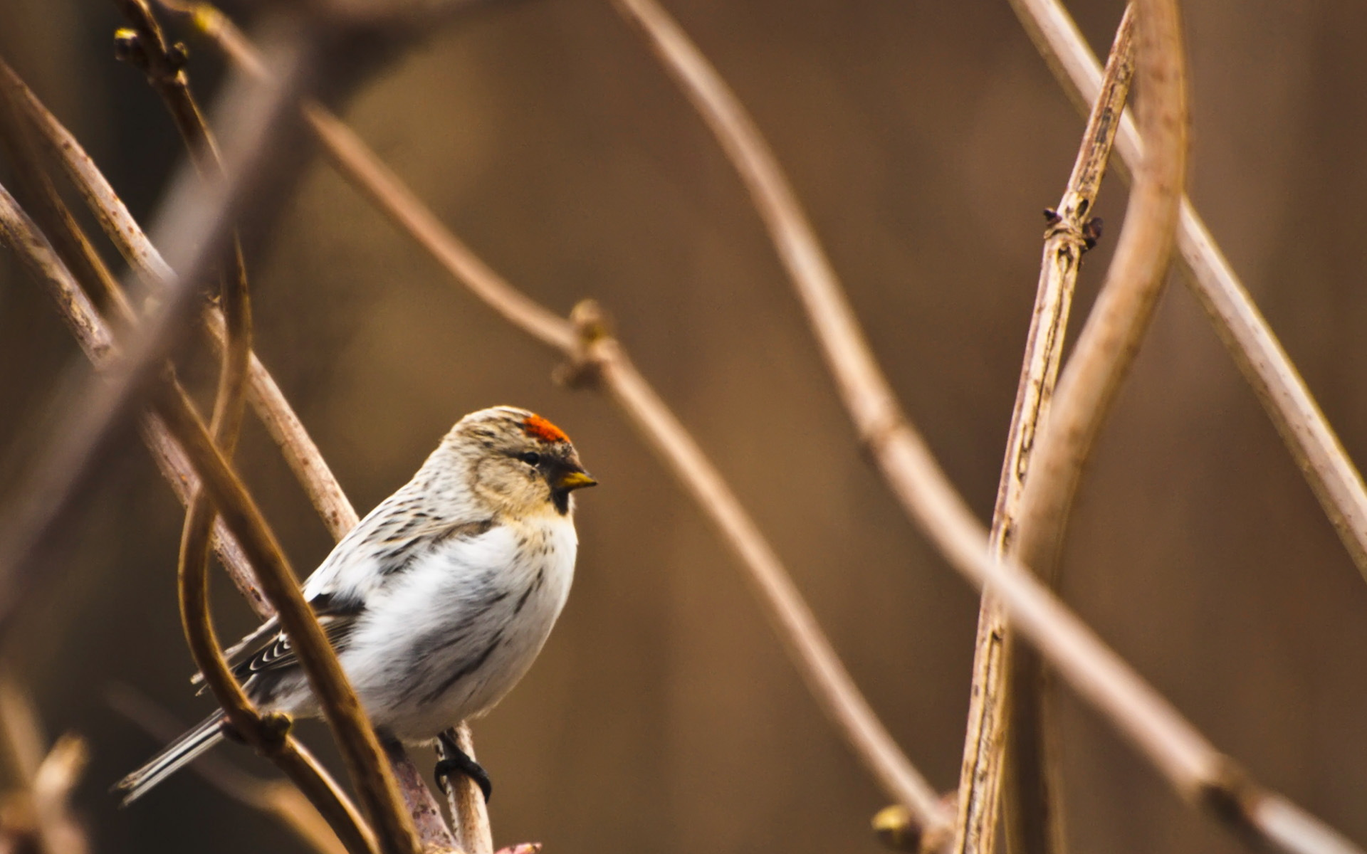 Auðnutittlingur (Carduelis flammea).